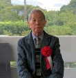 Gyōji Nomiyama, Professor Emeritus of Tokyo University of the Arts, received the Order of Culture on November, 2014.